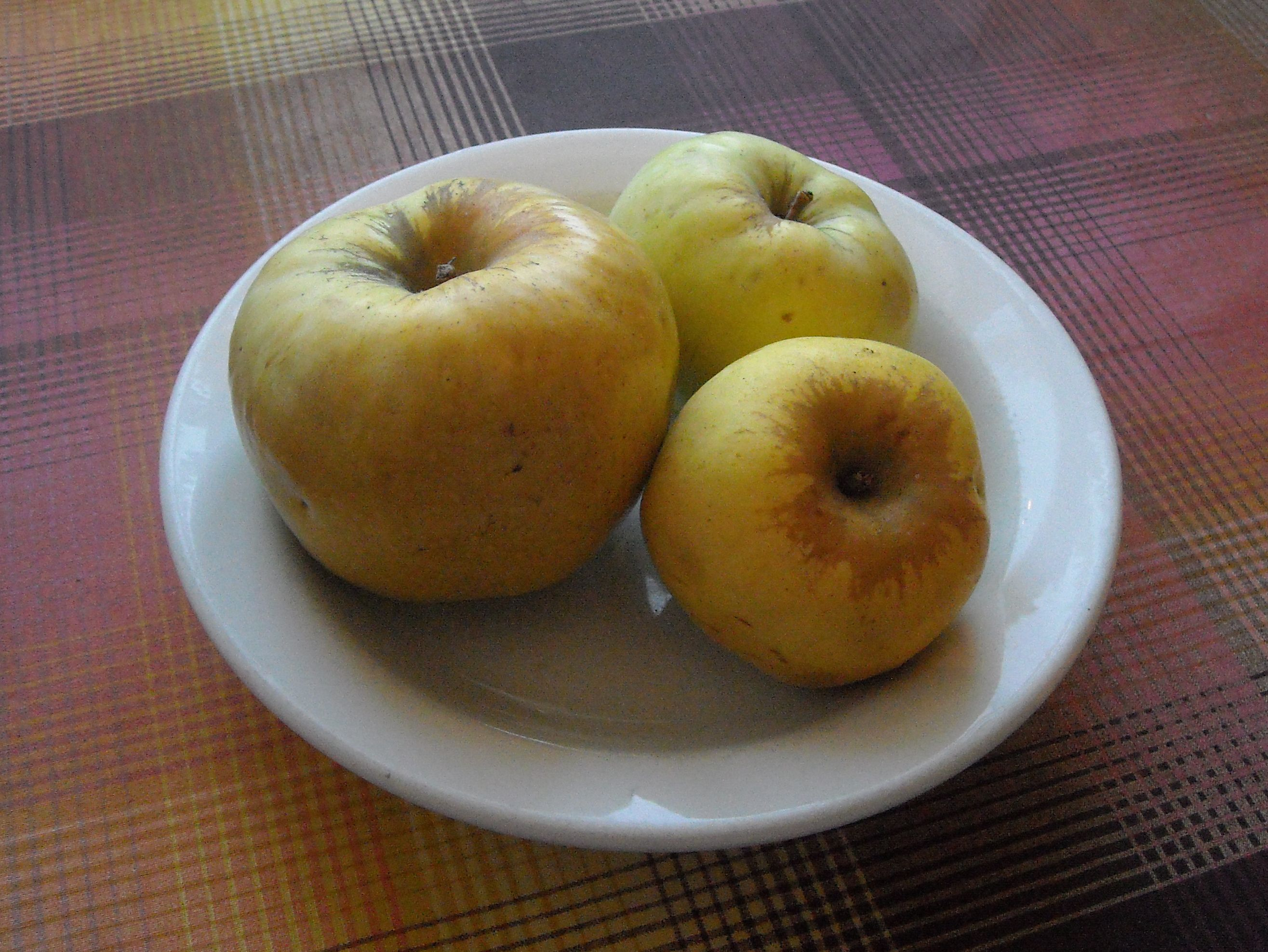 Kursk Antonovka, apples from old trees (aprox. 1945-1948), Kursk, Russia